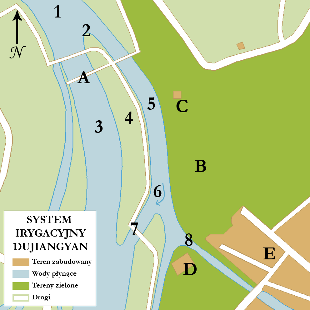 Dujiangyan Irrigation System map